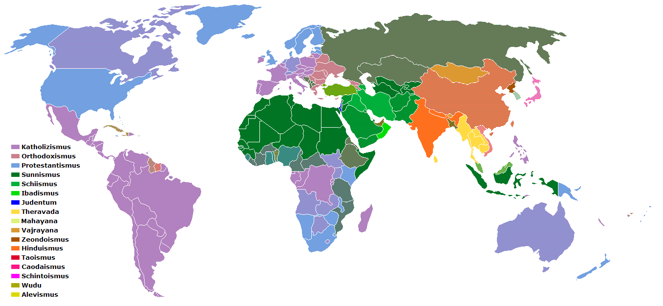 A map of the world, showing the major religions distributed in the world as of today. A different type of map which views only the religion as a whole excluding denominations or sects of the religions, and is colored by how the religions are distributed not by main religion of country etc.